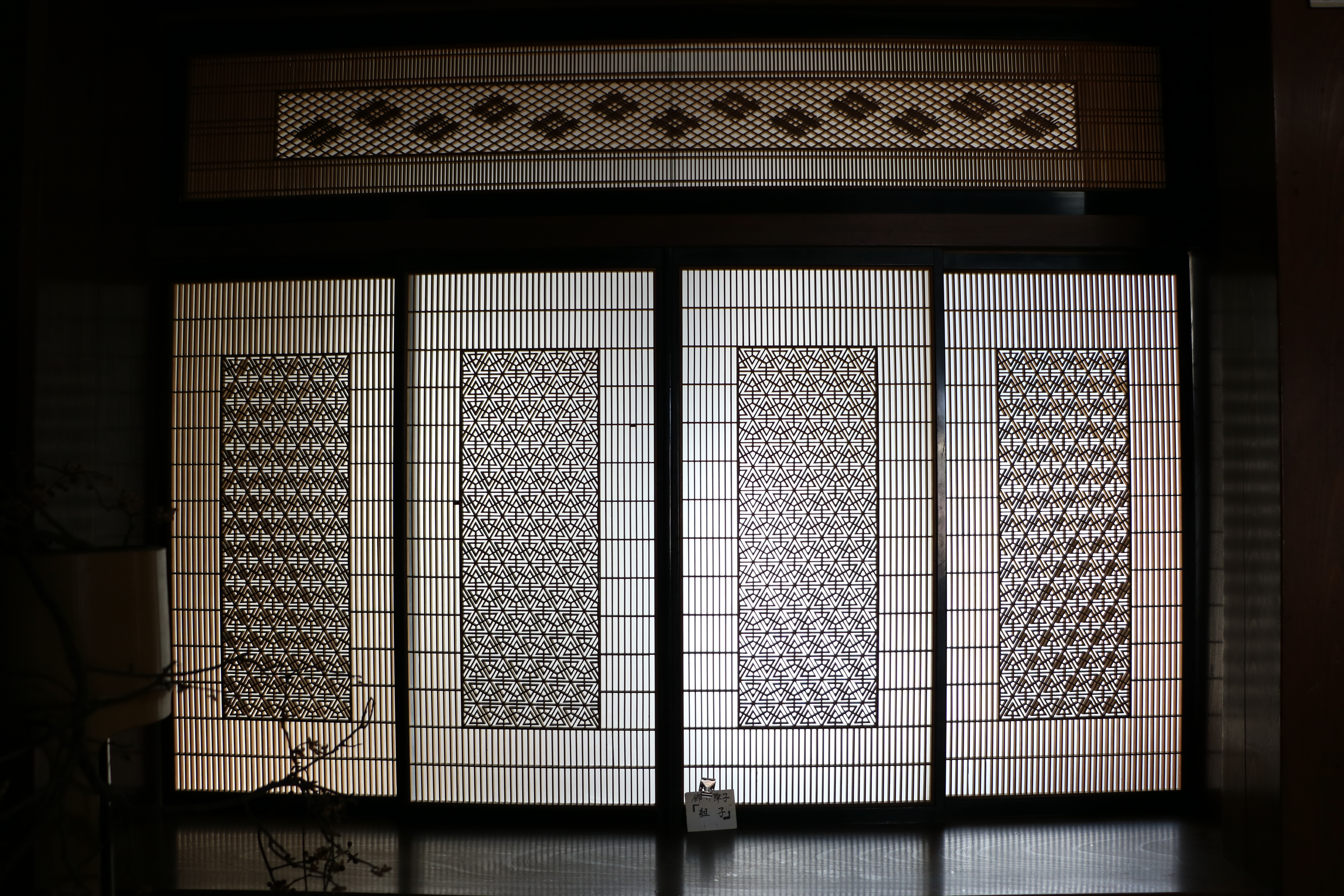 Kumiko-Zaiku of traditional crafting in the guest room of production around 1921.Tsuru City merchant museum.